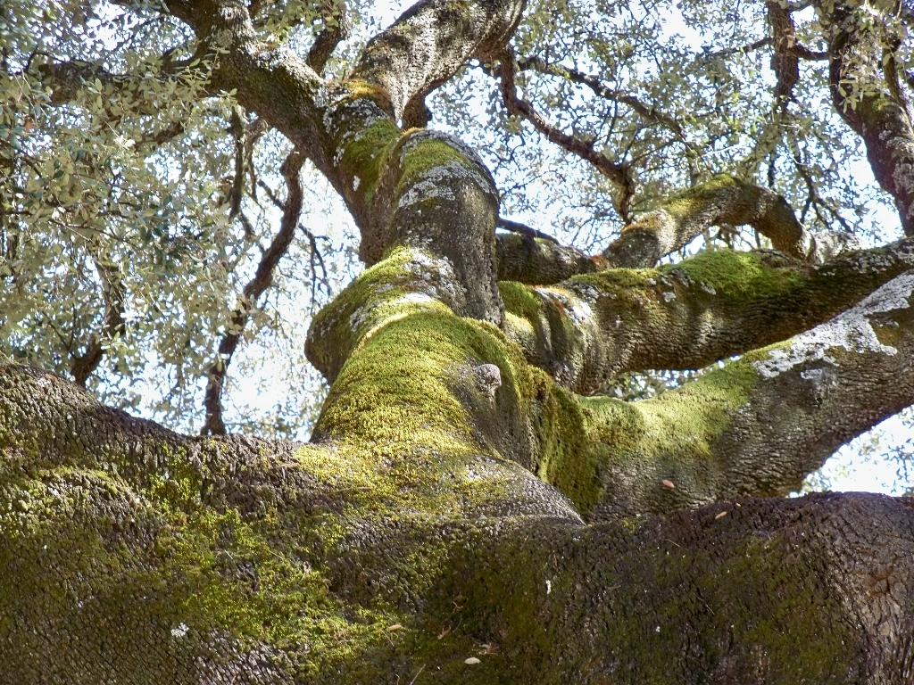 Chaparro de la Vega (Quercus rotundifolia), Natural Monument of Andalusia, Spain.